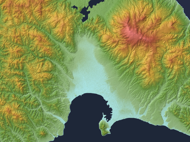 Hakodate Plain in Hokkaido Prefecture, Hokkaido, Japan.